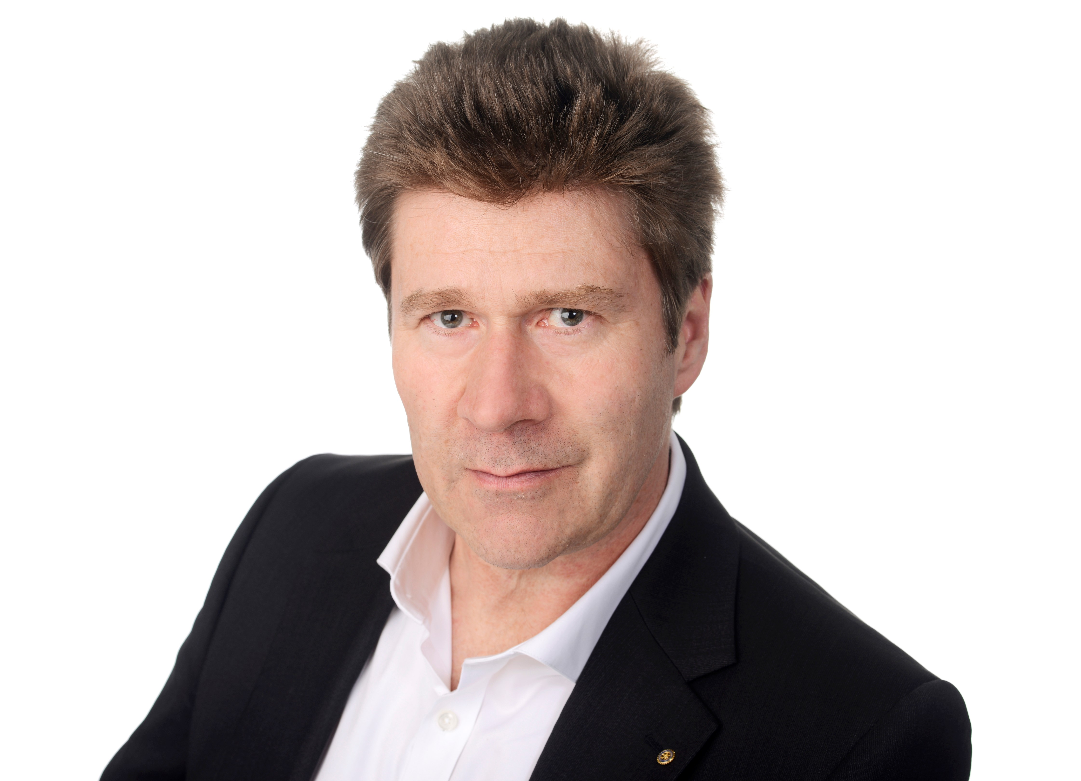 Werner Boysen